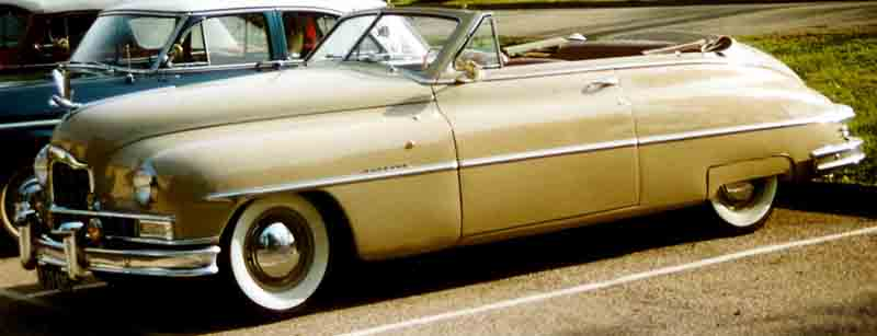 1950 Packard Custom Eight Convertible Victoria Model 2333